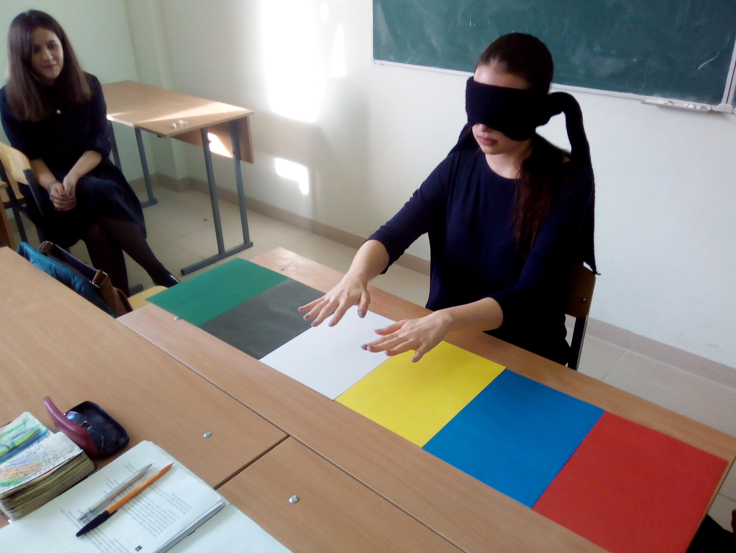 Photograph taken during a performance is a visual document. October 23, 2018. St. Petersburg. Extrasensory perception/ Color. Head — Alexey Parygin.